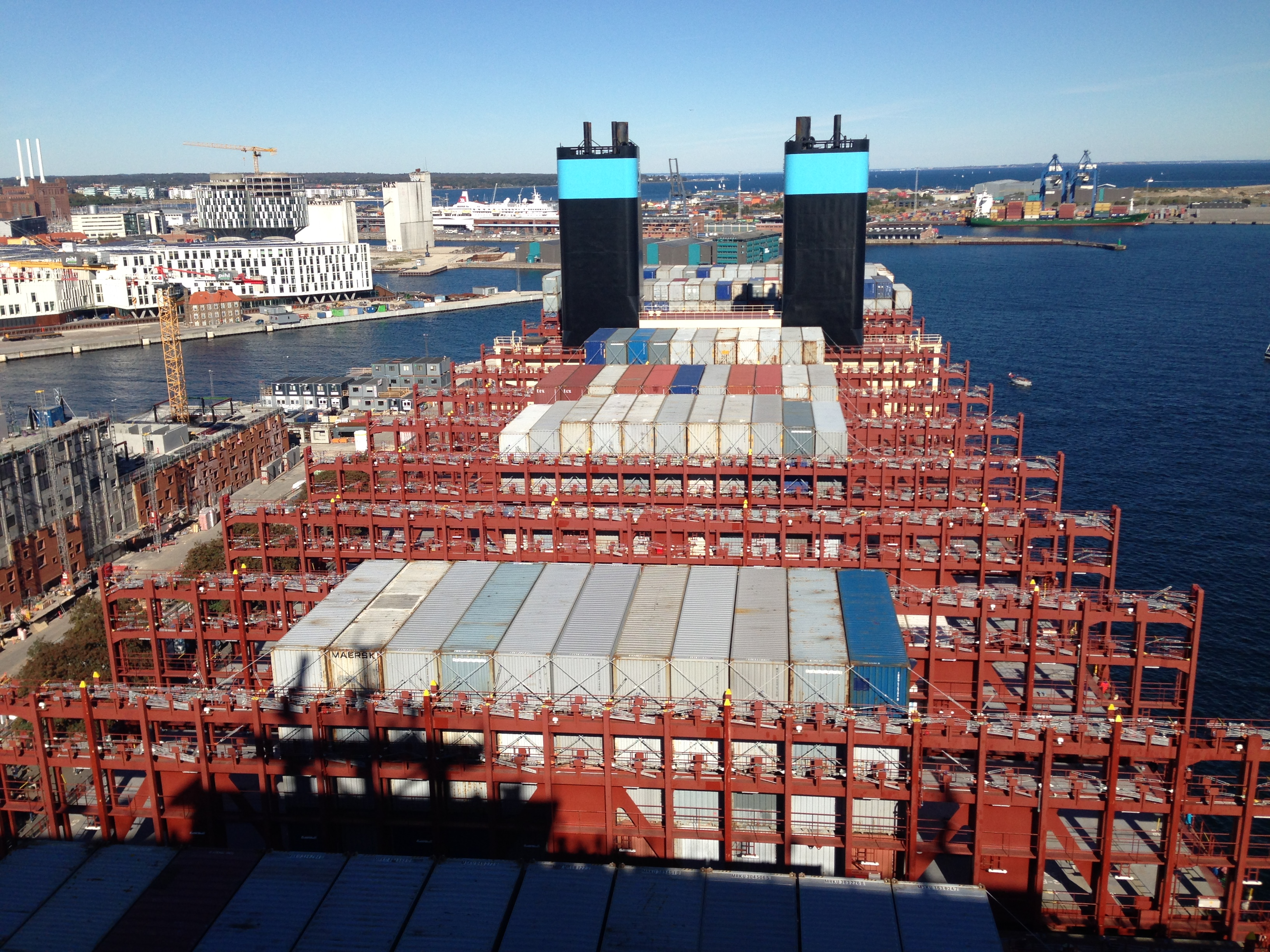 The Maersk Majestic in Copenhagen in Sept 2013, shortly after entering in service during a public open exhibition. Photo shows the rear decks, partially populated with containers.